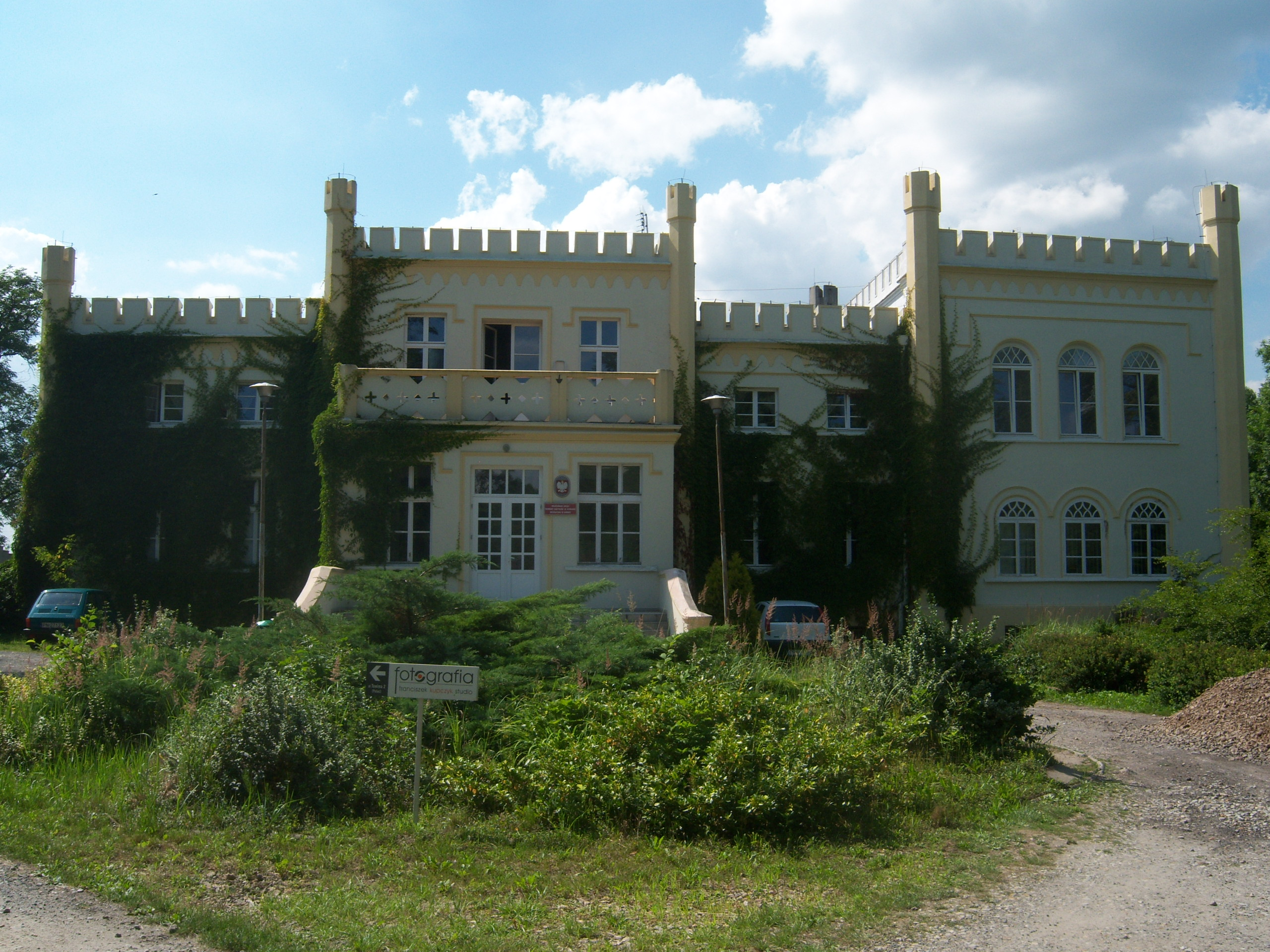 Kowalski's Palace in Posada - front